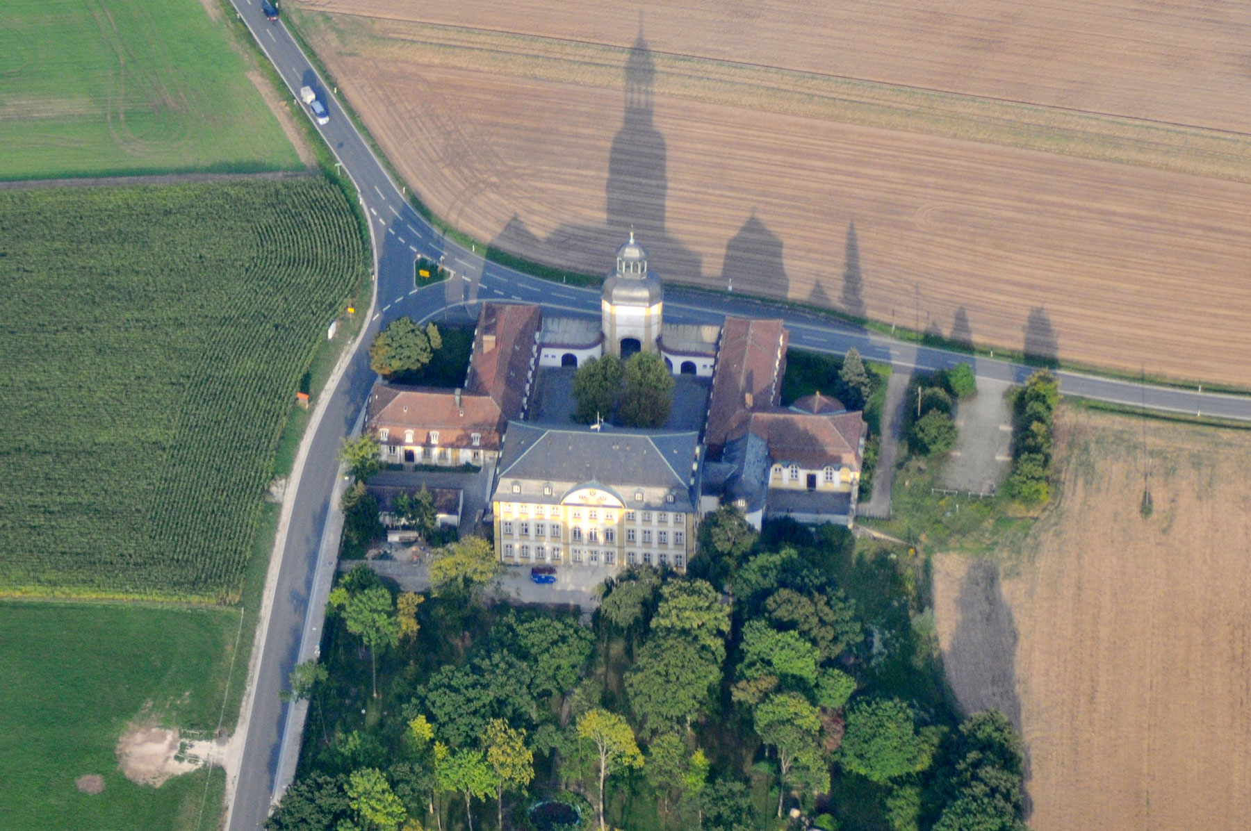 Aerial photography of Schloss Jägersburg near Eggolsheim, Bavaria, GermanyThis is a photograph of an architectural monument.